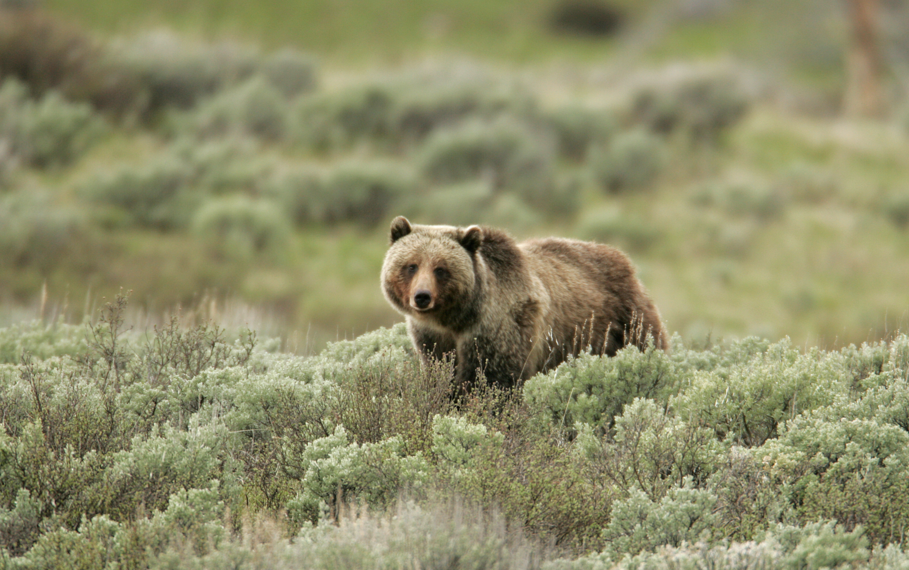 Grizzly bear on Swan Lake Flats; Jim Peaco; June 2005; Catalog #18220d; Original #IT8M3358